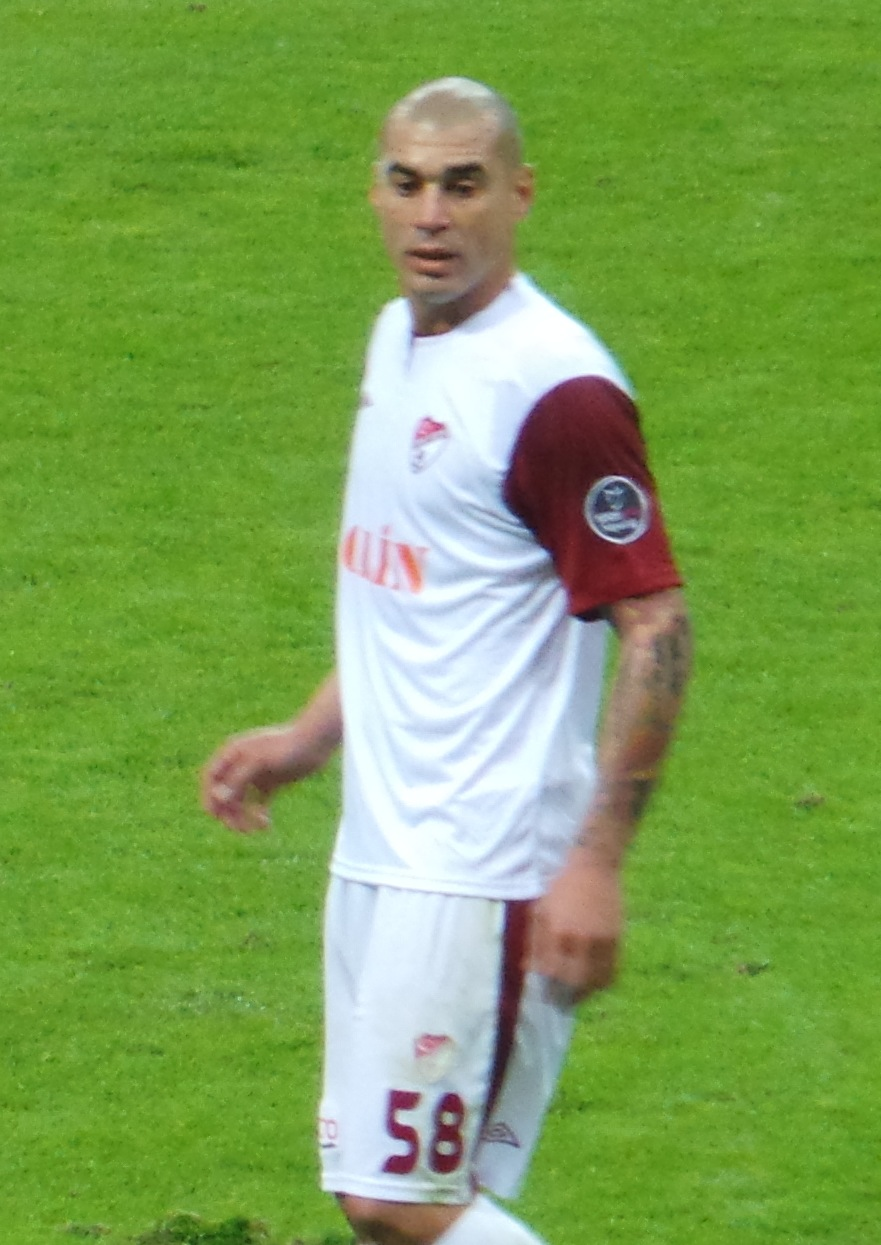 Bilica vs GS